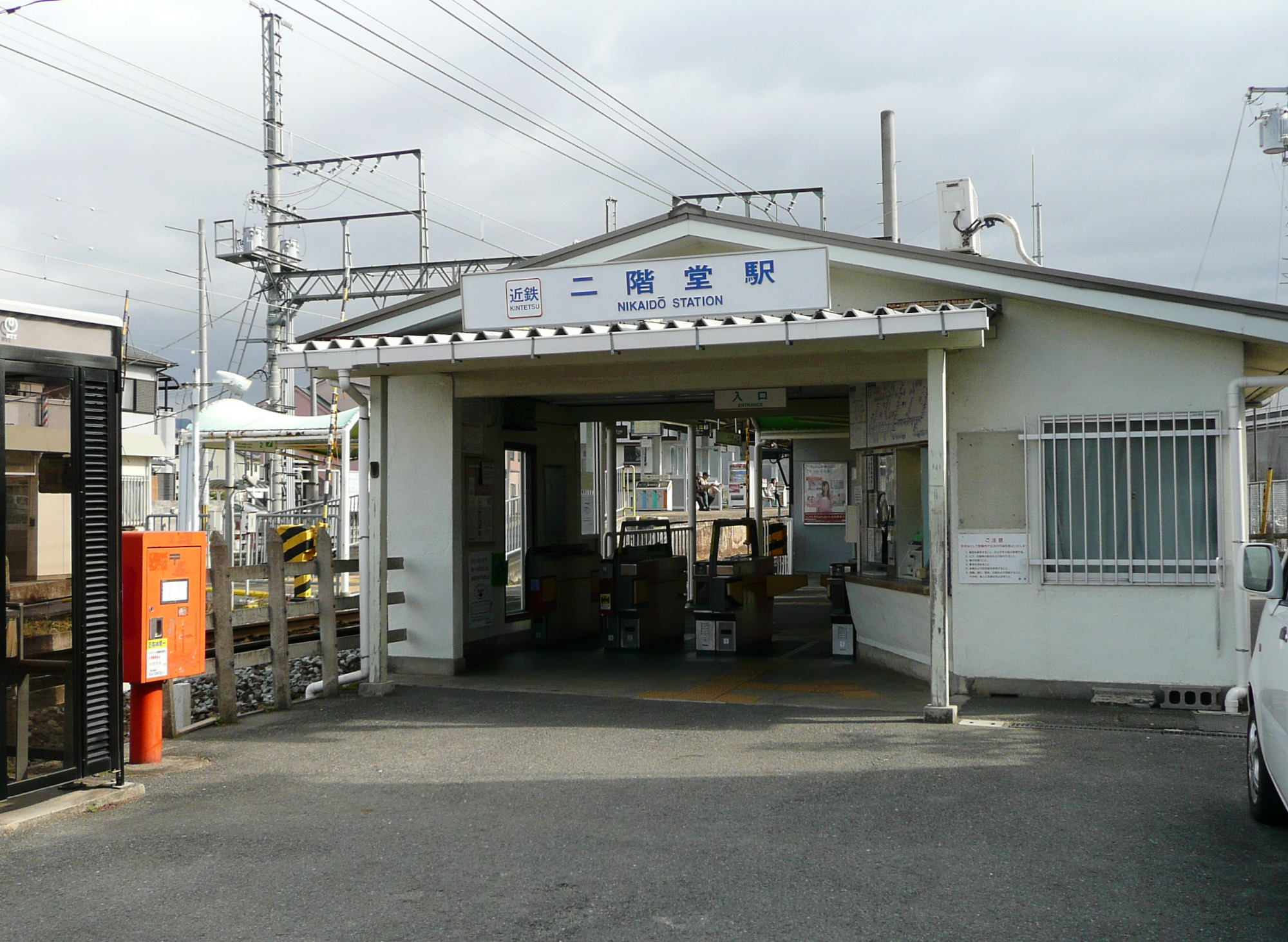 Kinki Nippon Railway,Tenri Line,Nikaido Station south entrance.